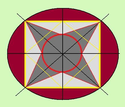 The geometrical build up of Fort Carreé in Antibes France